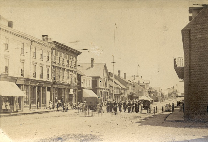 "Rejoicing at St. Andrews, New Brunswick, Canada, on Water Street on Receipt of the News of the Relief of Ladysmith, South Africa".